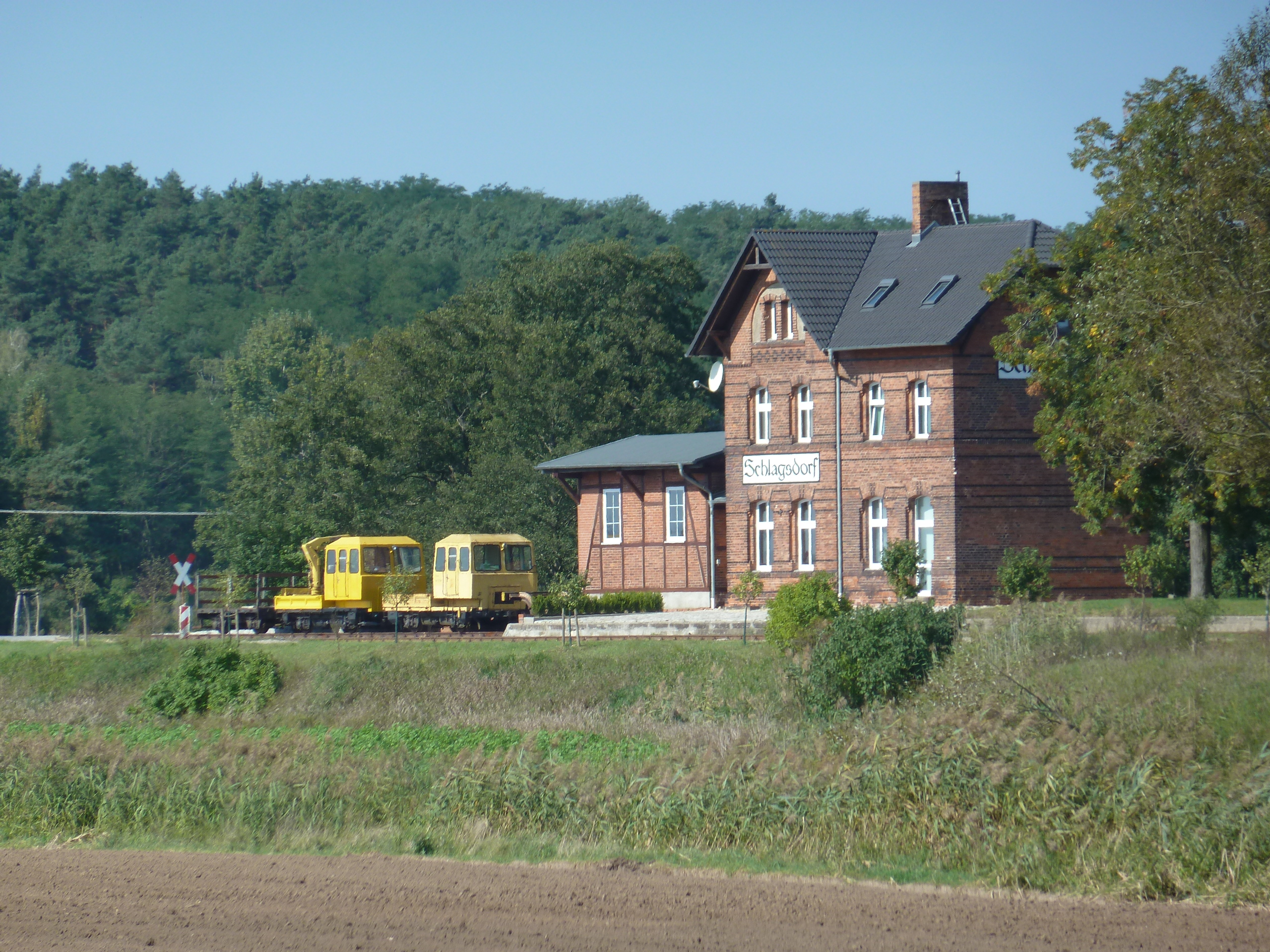 Schlagsdorf railway station, Guben-Forst line